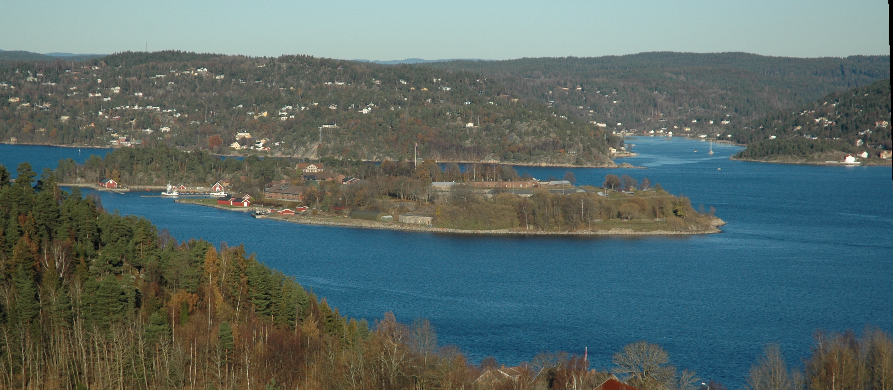 Oscarsborg fortress in the Oslo fjord. Photography taken from south-west.